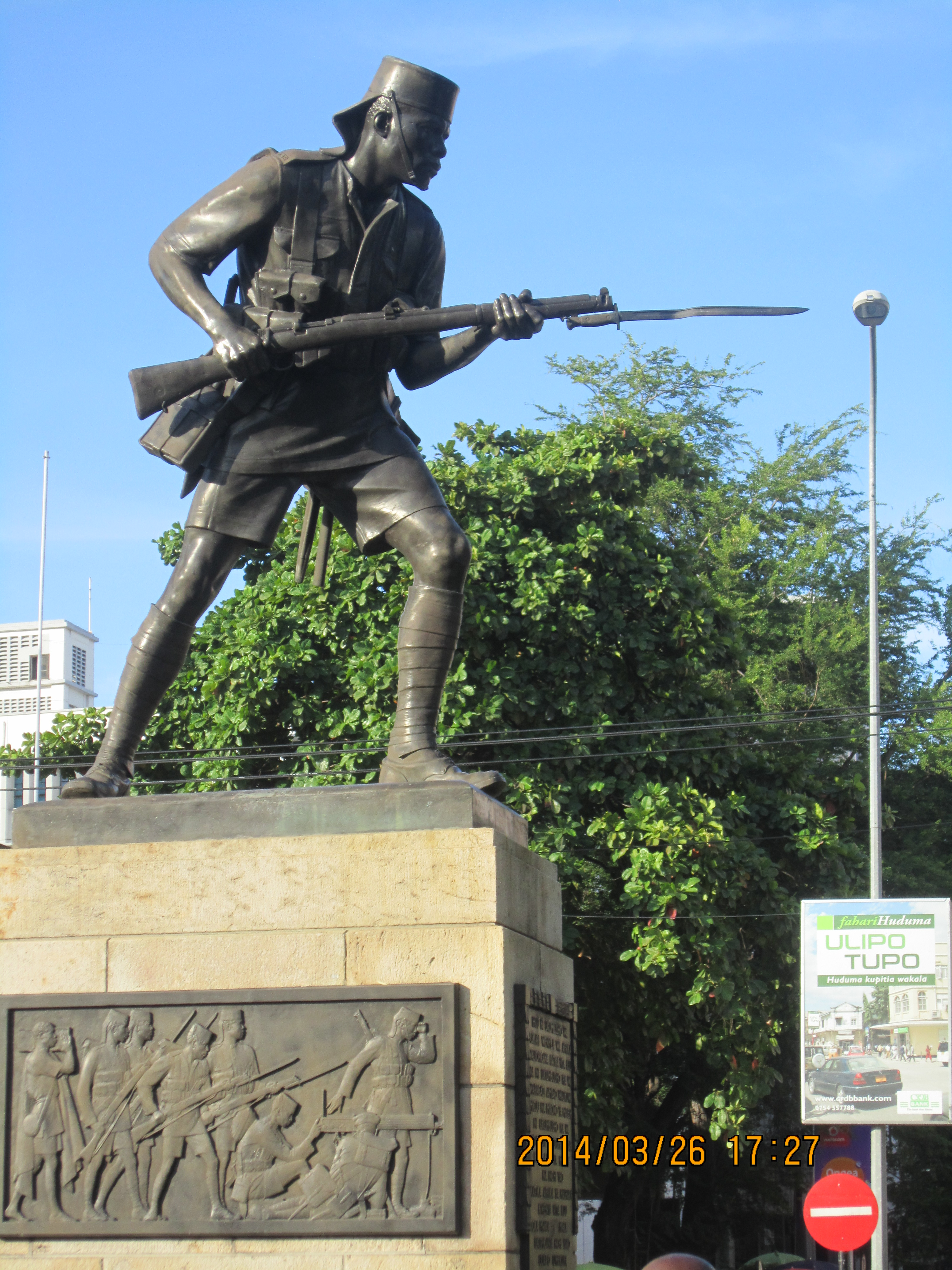 The Askari monument or Sanamu la Askari in Swahili as facing the New Africa Hotel